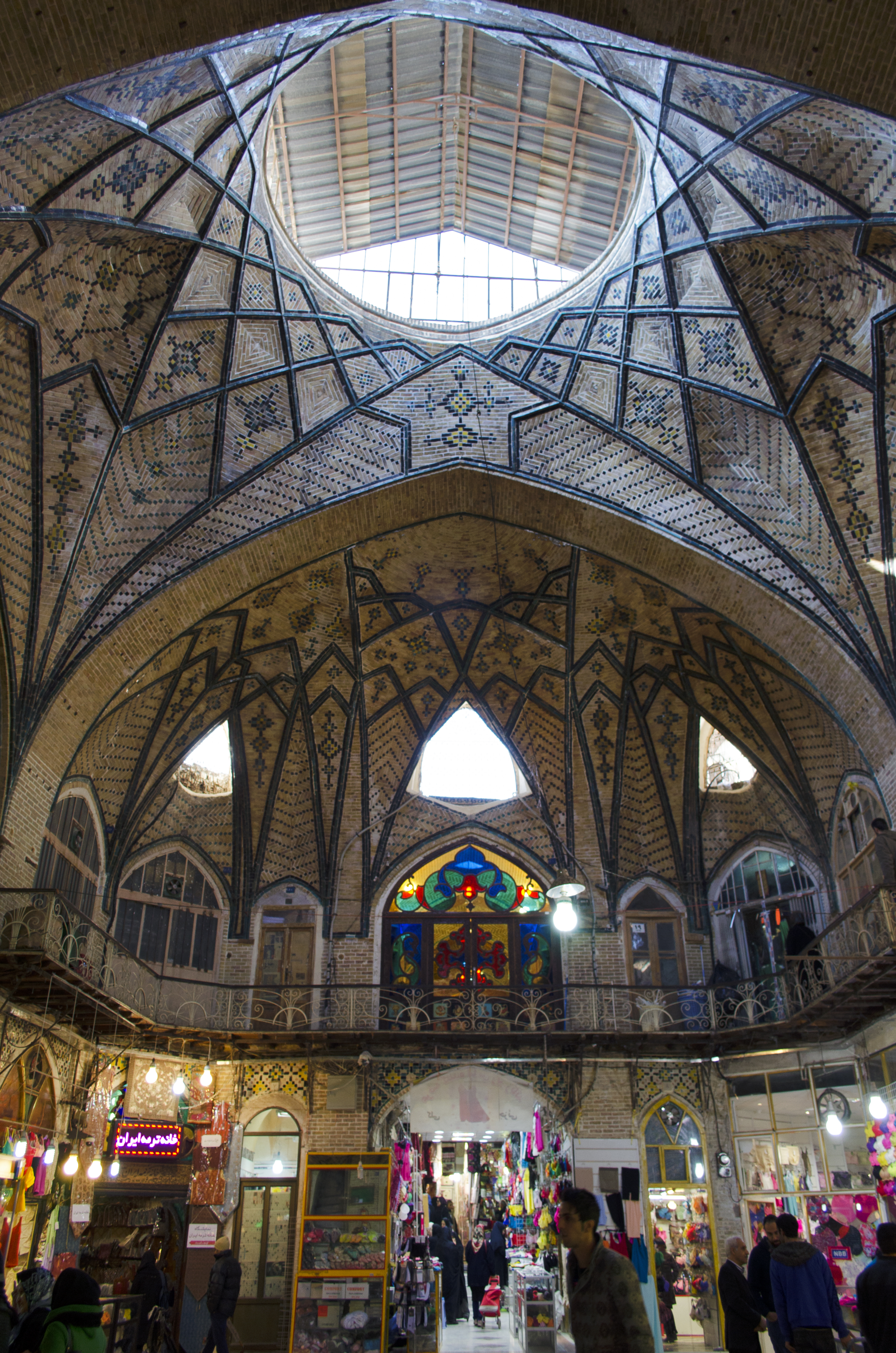 Tehran grand bazar